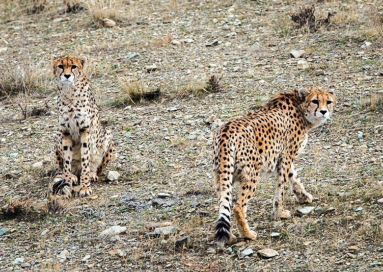 Delbar(female)[left] and Kooshki(male),two Asiatic Cheetahs in Iran.